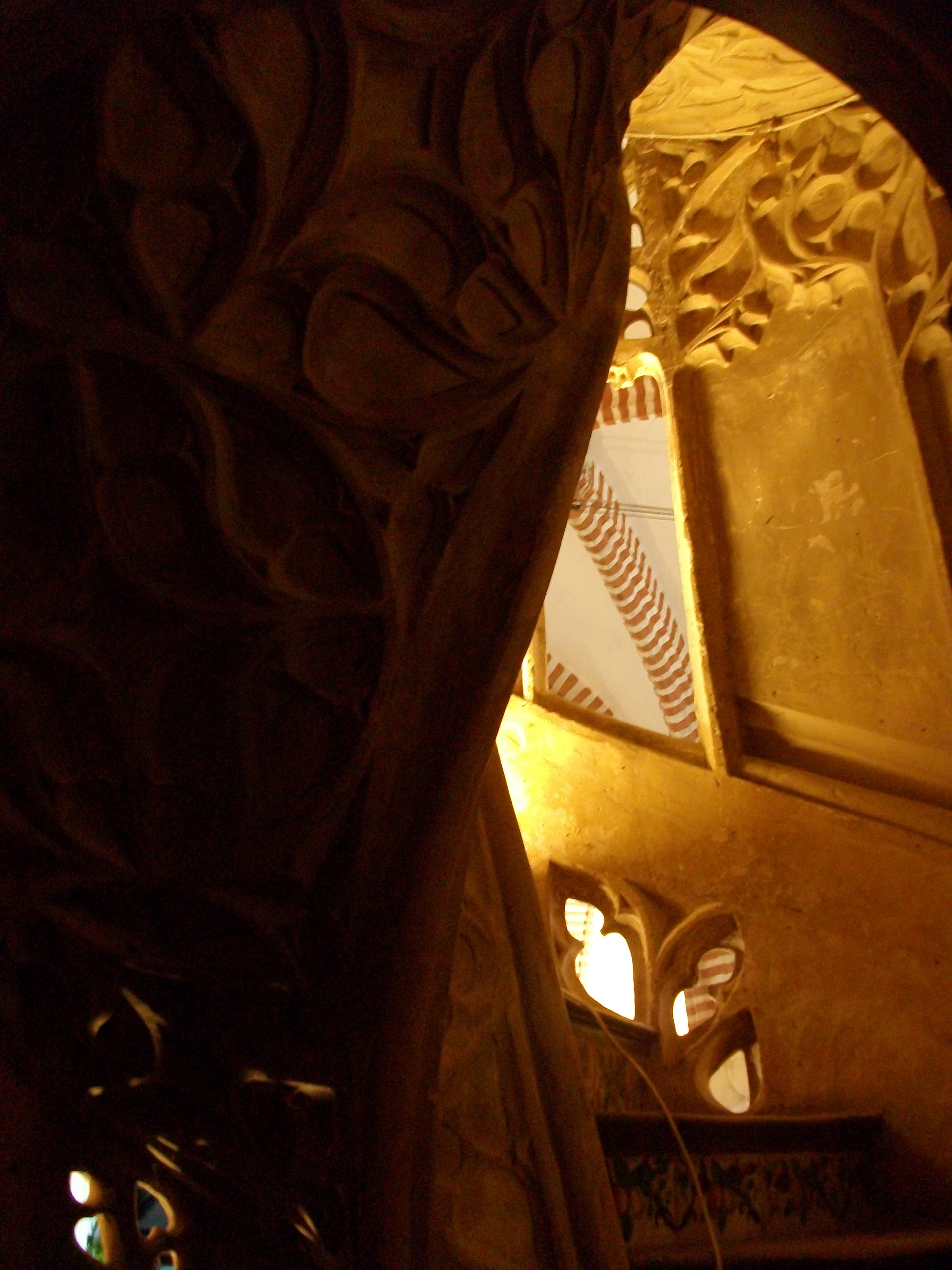 Gothic satirs.